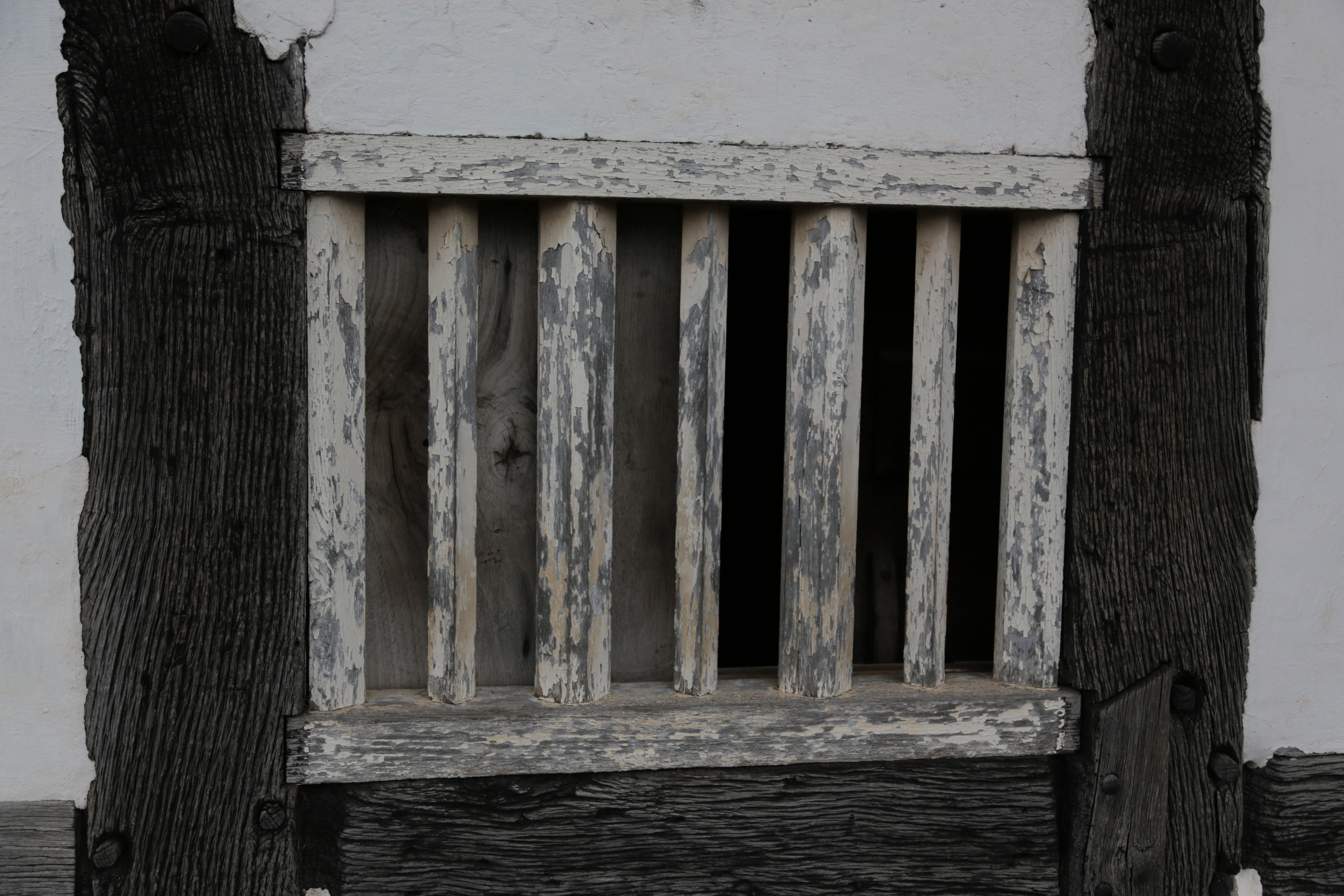 Abernodwydd Farmhouse, St Fagans National History Museum